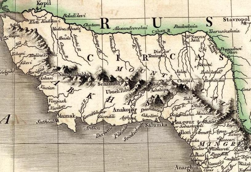 A new map of Turkey in Asia, divided into its provinces, from the best authorities. By John Cary, engraver, 1801. London: Published by J. Cary, Engraver & Map-seller, No. 181, Strand, Decr. 21, 1801.